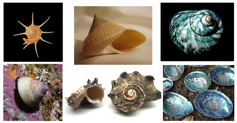 The shell of a deep water sea snail in the genus Guilfordia and the family Turbinidae. This is presumably Guilfordia yoka.The dusky turban snail (Tegula pulligo) is usually on kelp; once it falls to the bottom, it is easy prey for a number of predators, including sea stars, whelks, and octopus.A turbo marmoratus collected near Toliara (Tulear), Madagascar